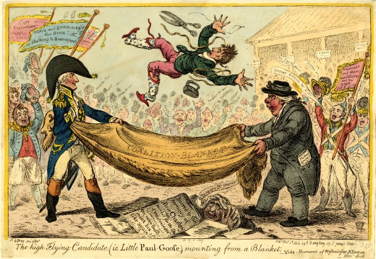 The High-Flying-Candidate, (i.e. Little Paul-Goose) mounting from a Blanket, satirical print. Caricature of the politician James Paull, tossed in a blanket by the two victorious candidates in the election in 1806 for the Westminster parliamentary constituency, Richard Brinsley Sheridan to the right, Sir Samuel Hood to the left.